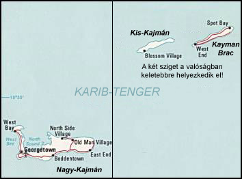 Map of the Cayman Islands